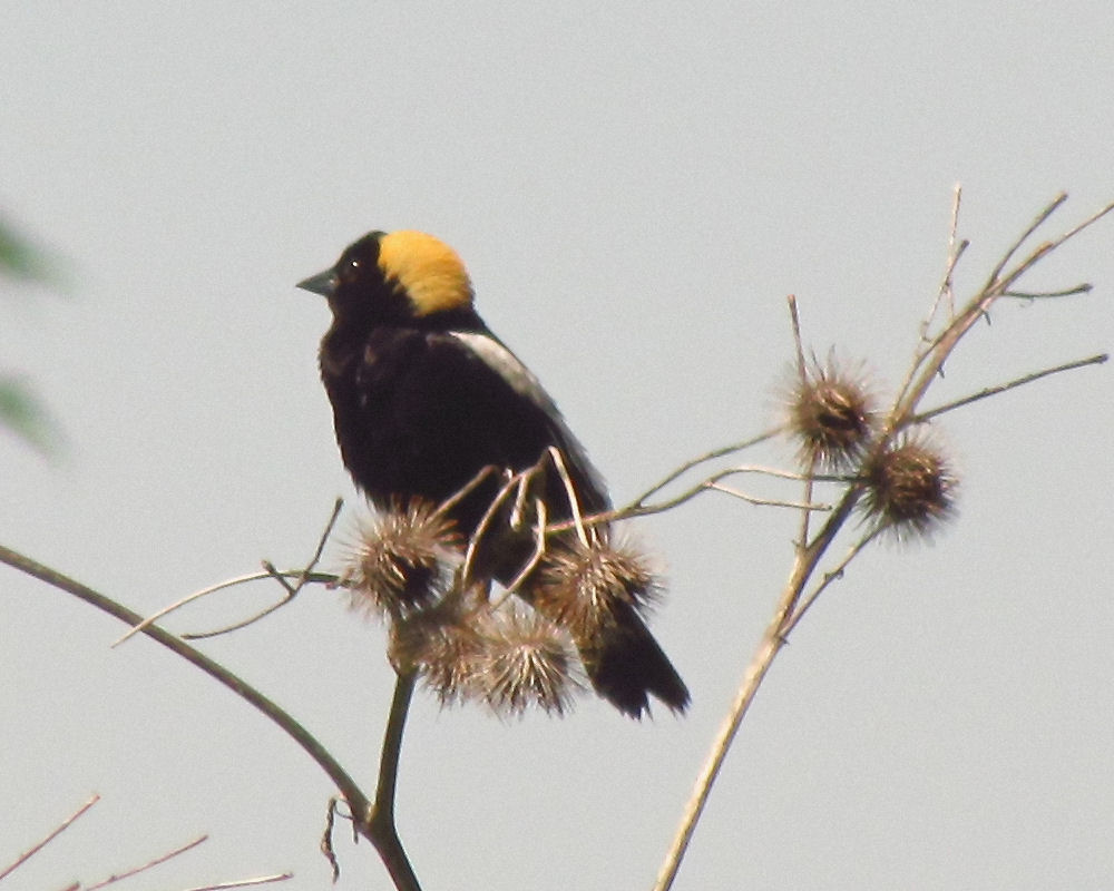 Bobolink (Dolichonyx oryzivorus), Mer Bleue Conservation Area, Ottawa, Ontario, Canada